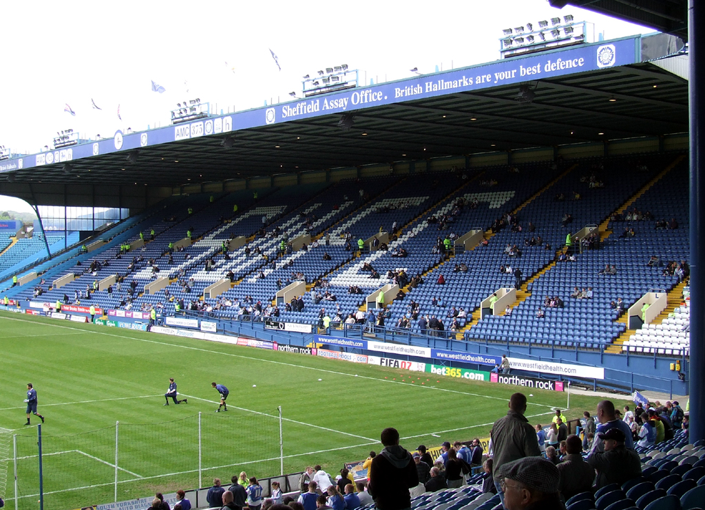 North stand at Hillsborough Stadium